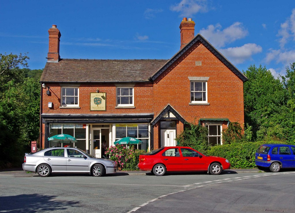 The Apple Tree, near to Onibury, Shropshire, Great Britain. This was for a long time the village store. It retains the windows at the front, which the store had, and even some of the advertisements are still there. However, in August 2003, the premises were opened as a pub and café bar. Under the present landlord, it is described as a bar and bistro, but essentially it remains a pub which also serves food. Interestingly the building was originally constructed as a pub, although possibly this is not the original building. It does apparently still have 16th century stone cellars. SO4579 : The Apple Tree (signs) .